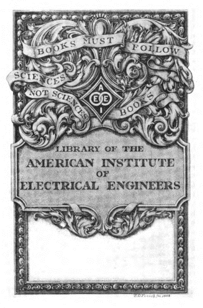 "Done by E.D. French in 1904. The diamond shaped pin is the official badge of the Institute. On the tablet below is engraved the names of various donors."